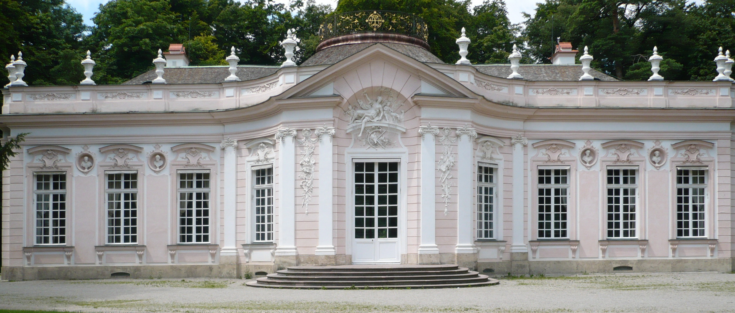 Amalienburg in the Garden of Nymphenburg Palace in Munich